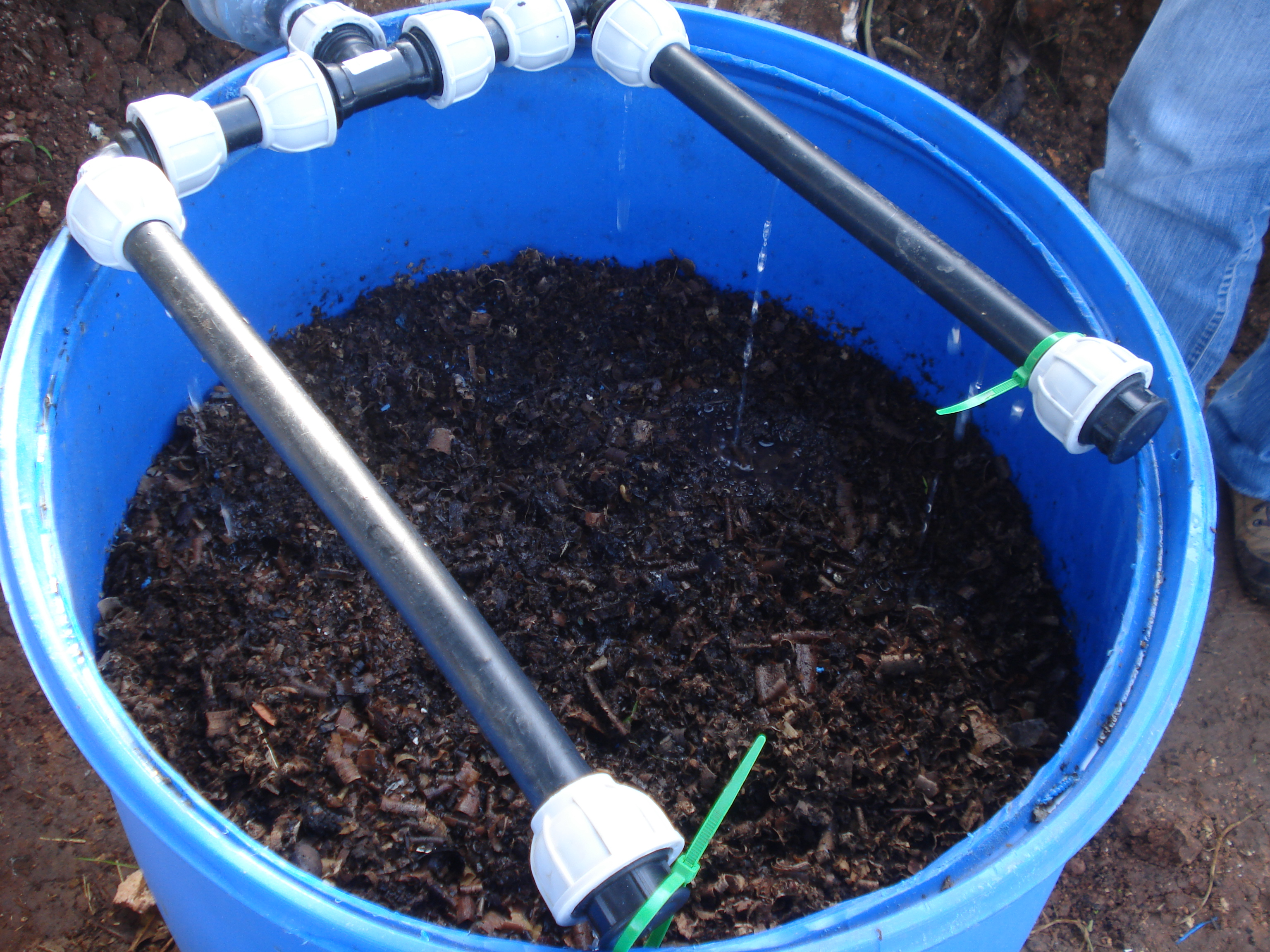 Domestic vermifilter with dripping application of wastewater.